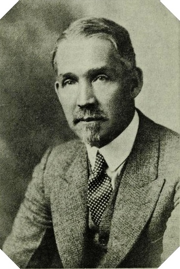 Photo of Rufus K. Hardy , a prominent missionary for The Church of Jesus Christ of Latter-day Saints in New Zealand and a general authority of the LDS Church from 1935 until his death.